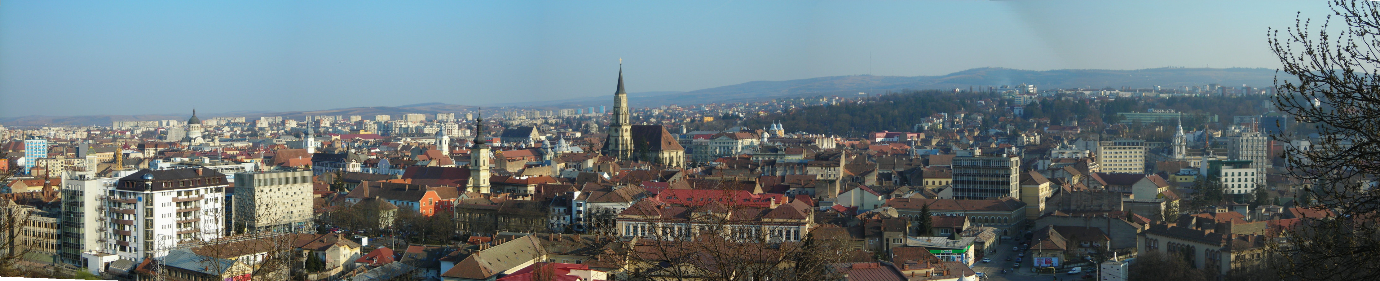 Panoramic view of Cluj-Napoca